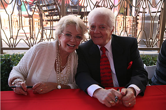 Picture of Bill Hayes and Susan Seaforth Hayes from the "Day of Days" Event in 2010.